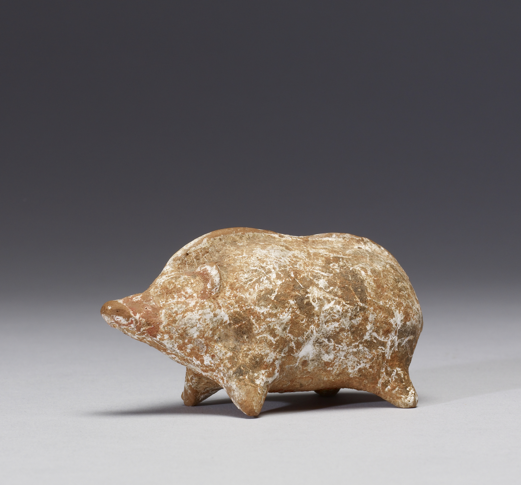 This pig statuette was produced in Boeotia, a region of ancient Greece known for its prolific output of terracotta figurines. The pig was a common sacrificial offering, and figurines may have served as votive offerings in place of live sacrifices. Examples of pig-shaped children's toys and sippy cups are also known.